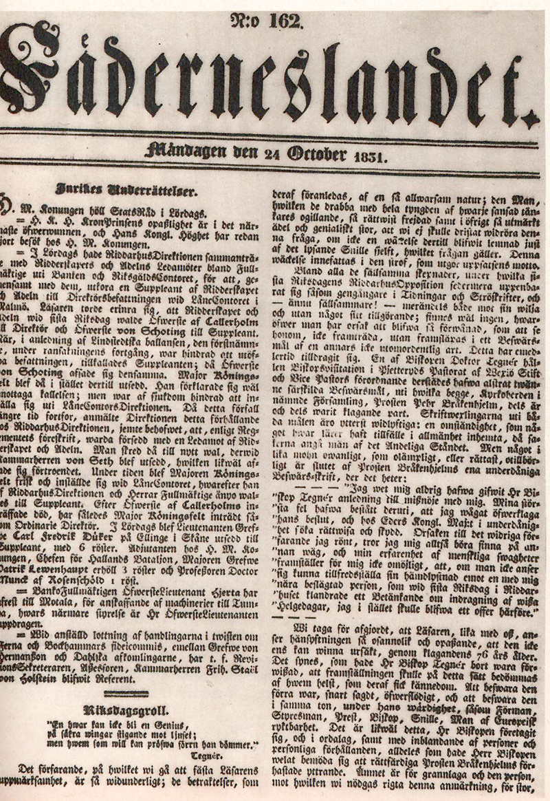 Fäderneslandet. Swedish newspaper